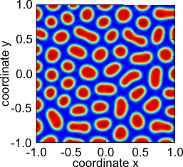 Image 3 (state at t=100) of a sequence showing a Turing bifurcation from a noisy ground state to a hexagonal state in a two-component reaction-diffusion system of Fitzhugh-Nagumo type, generated by Dr. H. U. Bödeker. The system reads: with τ = 0.1, du2 = 0.00028, dv2 = 0.005, κ = - 0.05 and was solved using a finite-element algorithm.